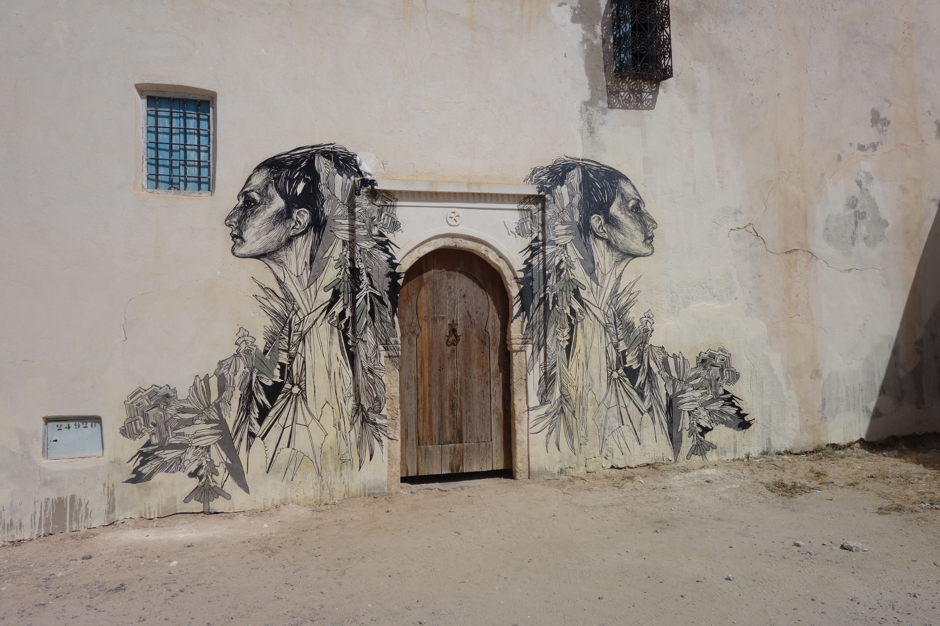 Djerba Er Riadh Street Art